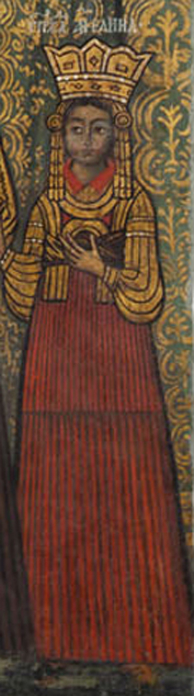 Stana of Wallachia, daughter of Neagoe Basarab